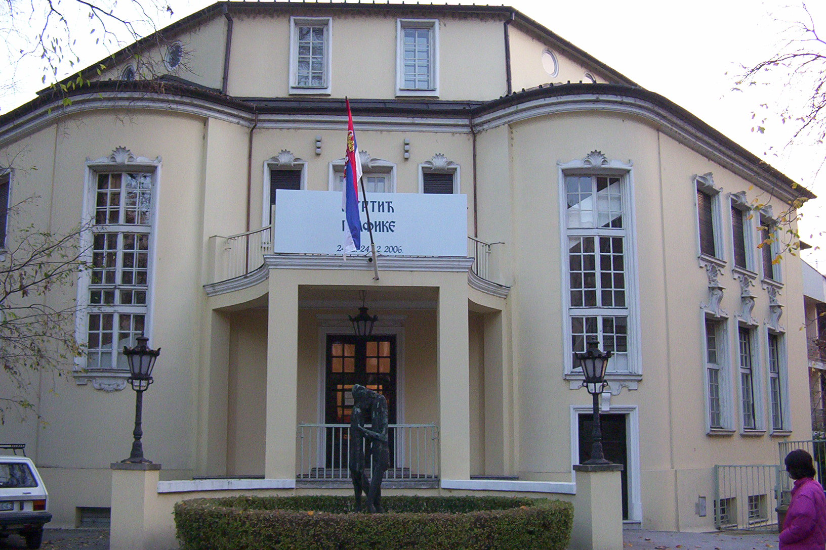 The Gallery of Fine Arts - Gift Collection of Rajko Mamuzić in Novi Sad, Serbia.